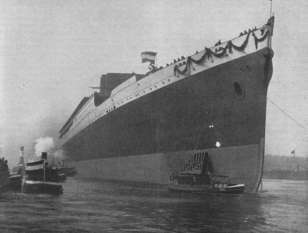 The launching of Vaterland, later namend Leviathan.